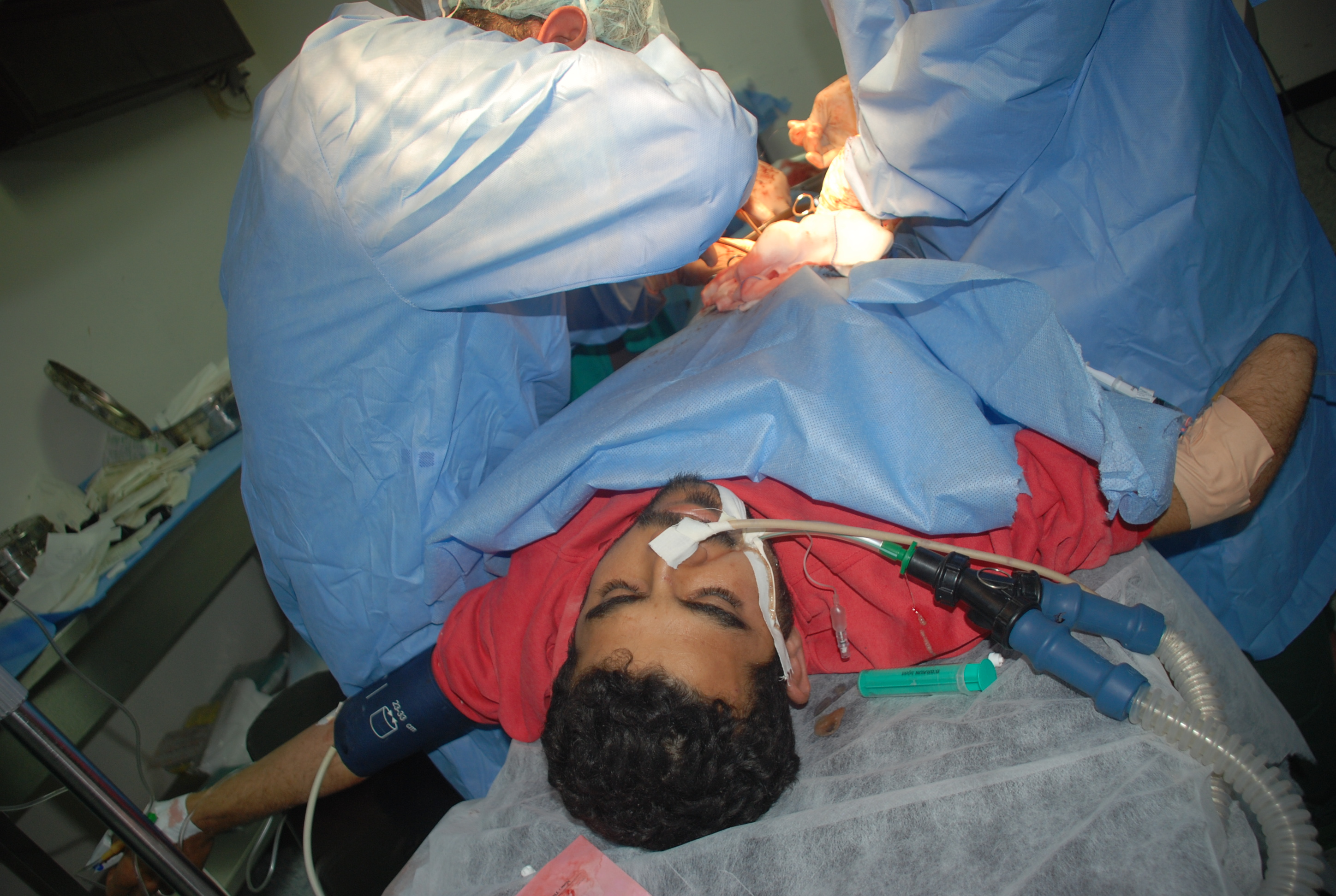 A rebel fighter at the Al Bayda Hospital, central Al Bayda.